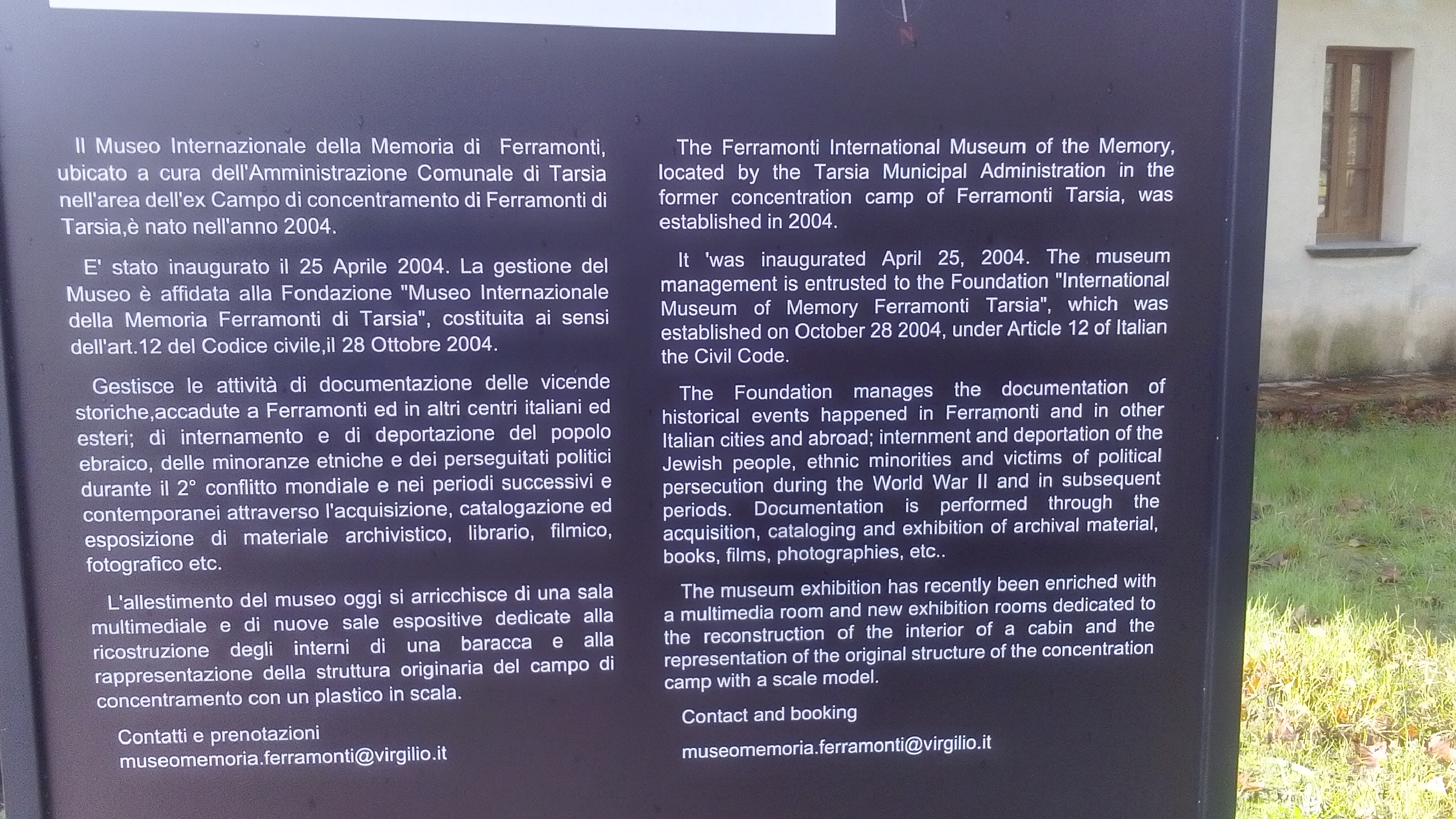 Ferramonti di Tarsia.